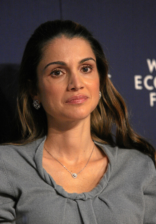 DAVOS/SWITZERLAND, 25JAN08 - H.M. Queen Rania Al Abdullah of the Hashemite Kingdom of Jordan, Member of the Foundation Board of the World Economic Forum captured during the session 'World leaders issue call to action on the Millennium Development Goals' at the Annual Meeting 2008 of the World Economic Forum in Davos, Switzerland, January 25, 2008.